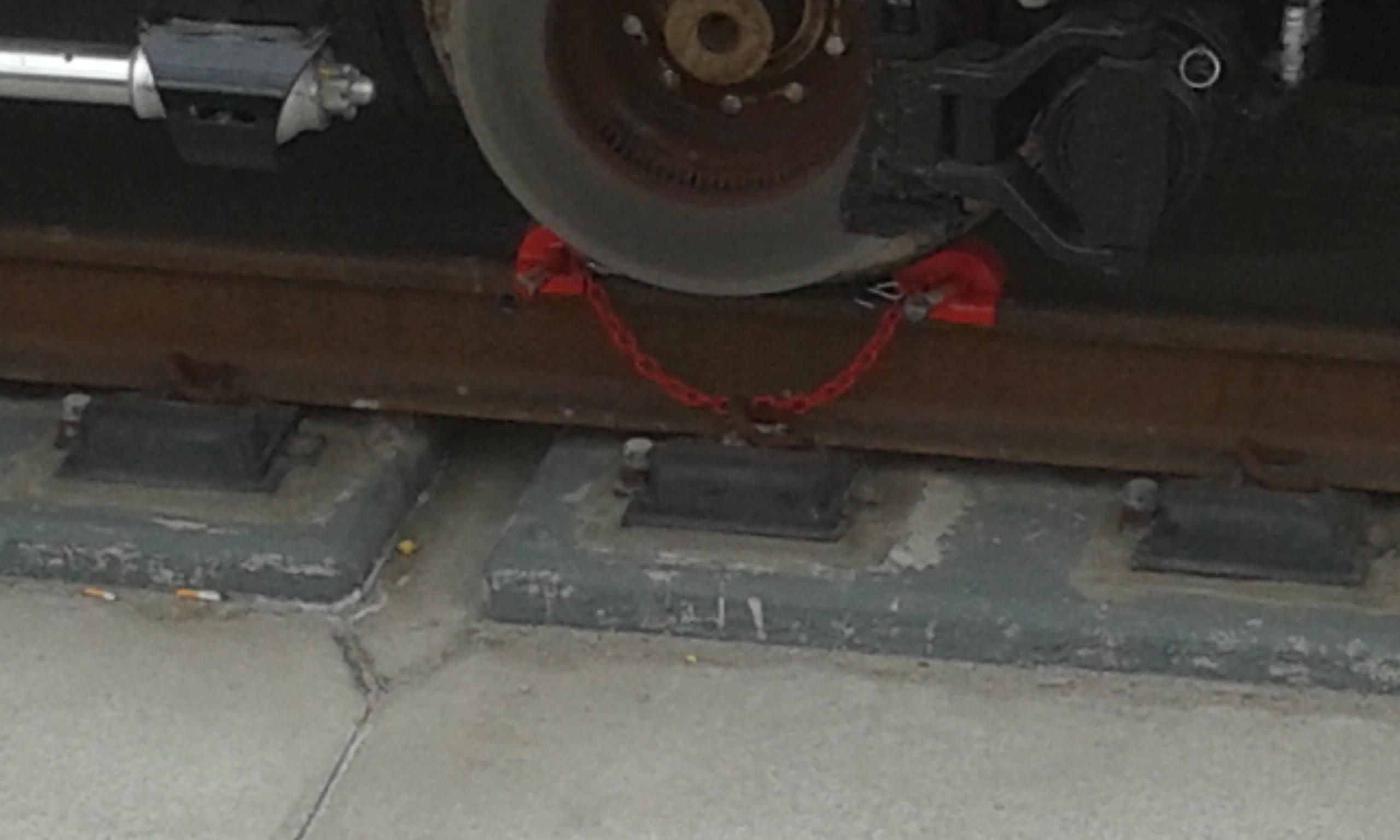 RTDX 4003 chocked wheels